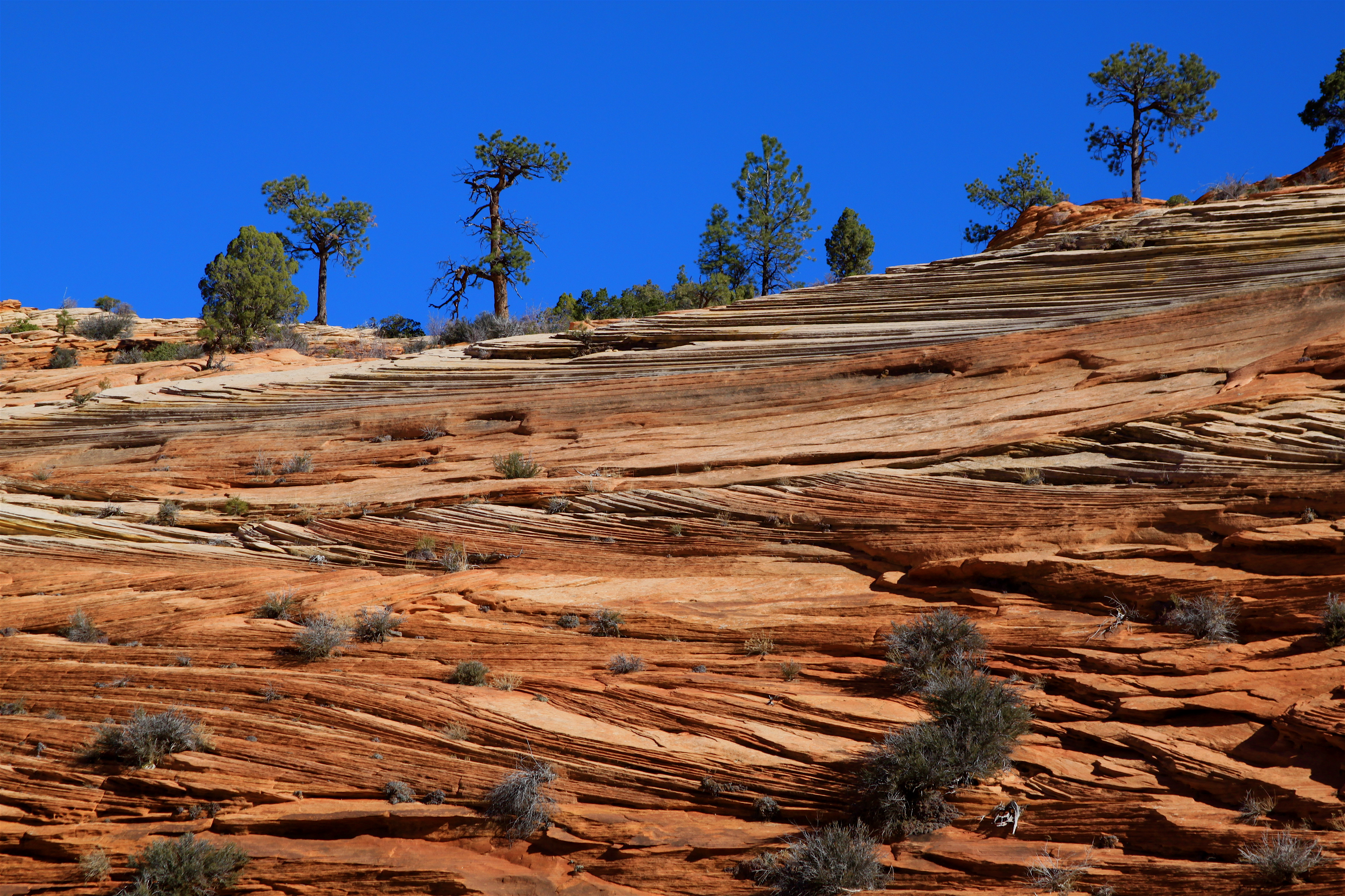 Sandstone showing cross-bedding in Zion National Park, Utah, USA.